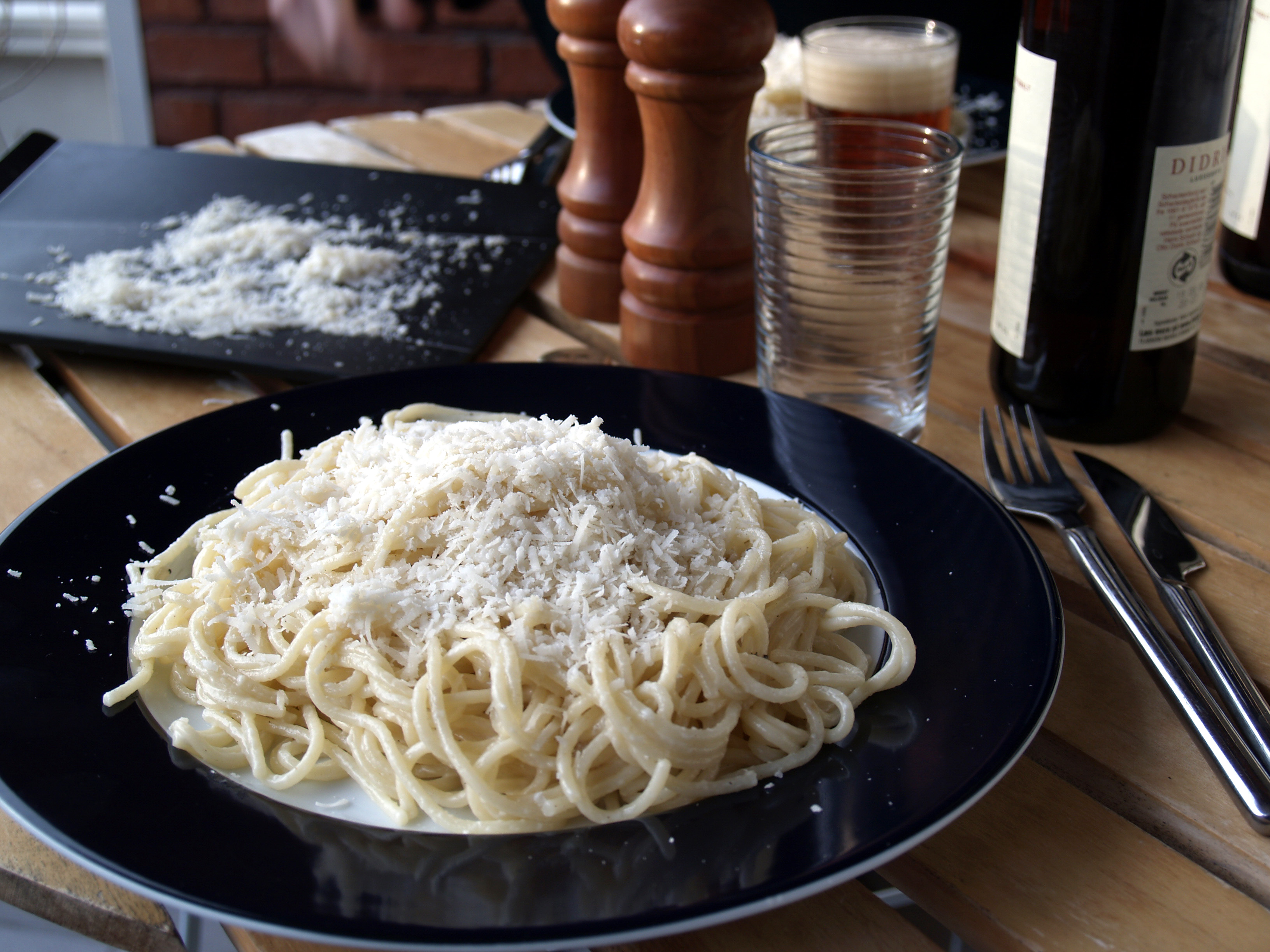 Spaghetti with cream sauce and parmesan